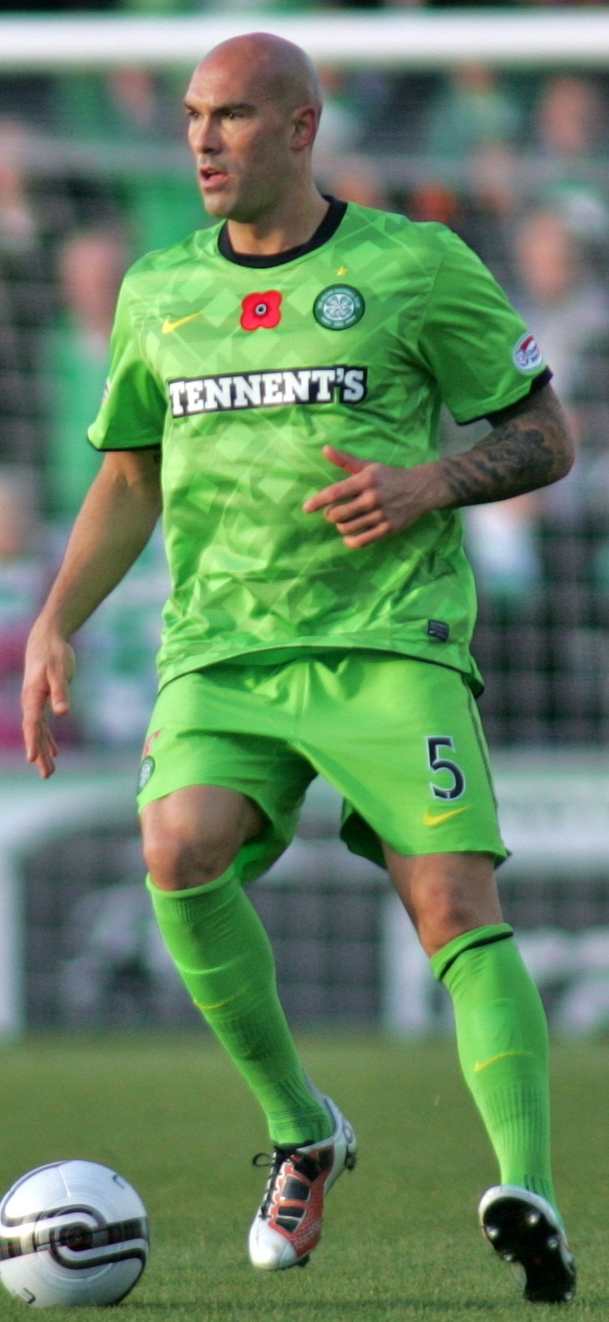 Daniel Majstorovic playing for Celtic F.C. in a Scottish Premier League match against St. Mirren F.C. on 14 November 2010.